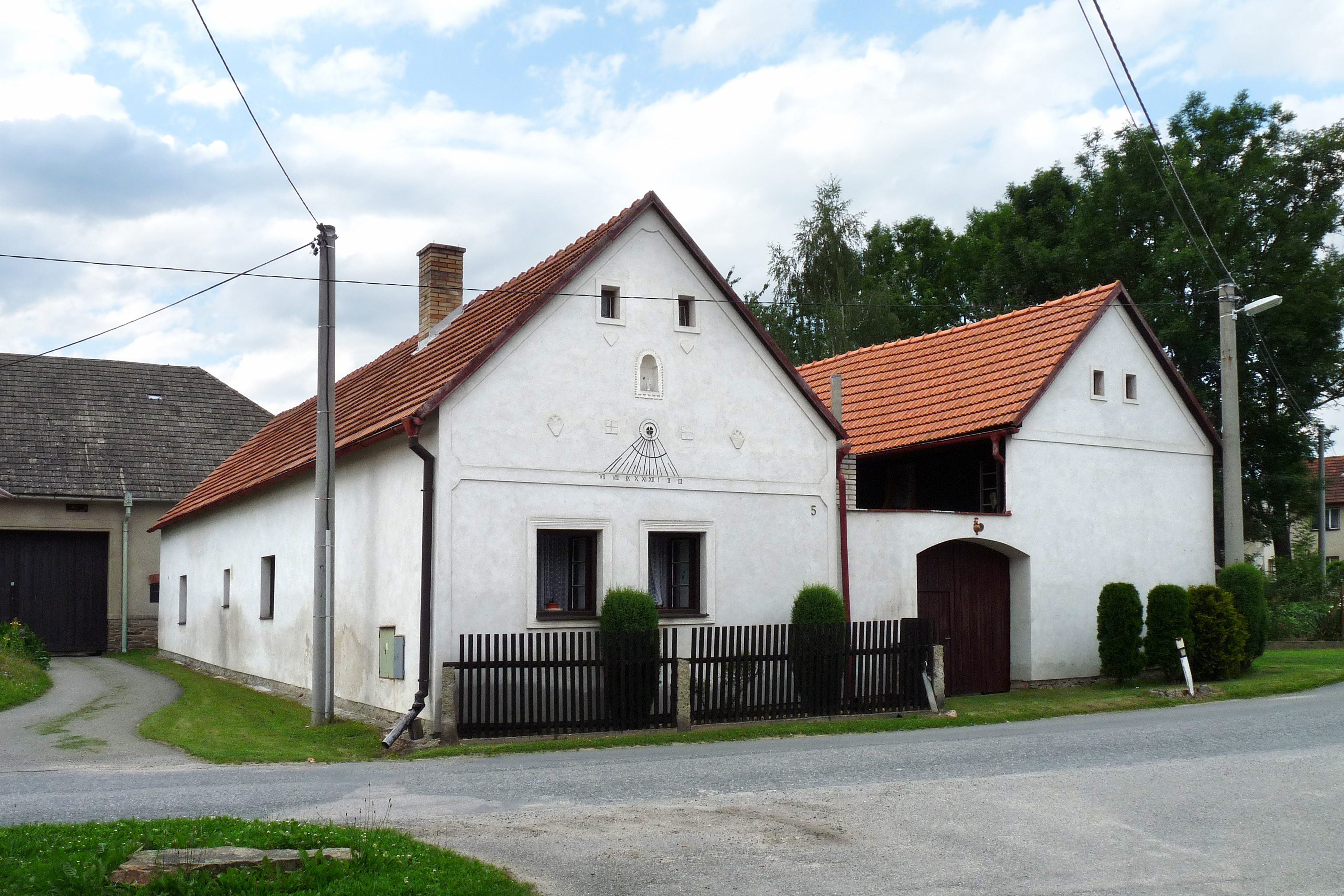 House No 5 in the municipality of Chotěmice, Tábor District, South Bohemian Region, Czech Republic. Česky: Dům čp. 5 v obci Chotěmice v okrese Tábor.